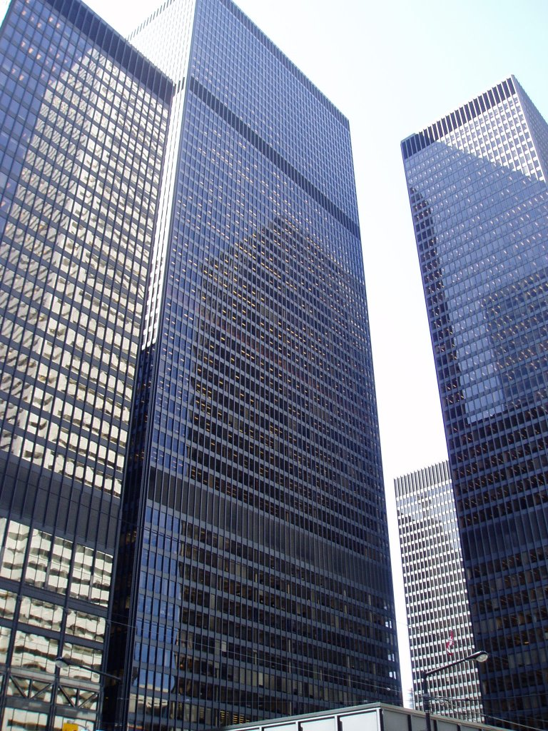 The distinctly black skyscrapers of the Toronto-Dominion Centre, designed by Mies van der Rohe.